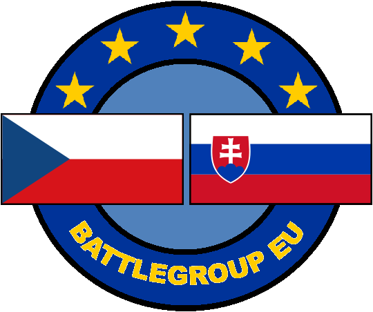 Emblem of the Czech-Slovak Battlegroup. Based on this image from the Ministry of Defence of the Czech Republic.